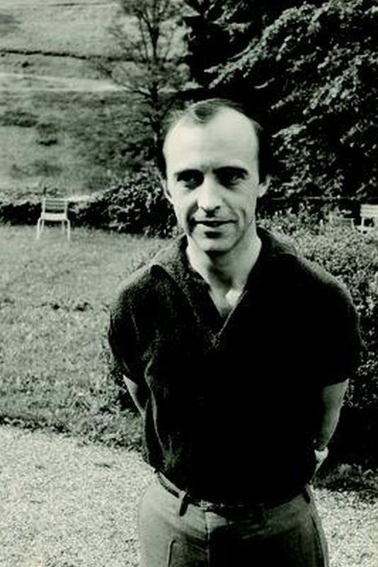 William Parry, Oberwolfach 1968